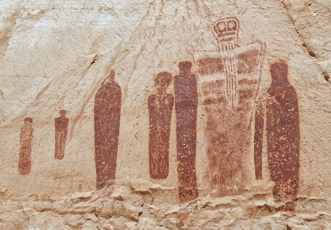 Holy Ghost Panel, Great Gallery, Canyonlands National Park. This family is on the south (left) side of the main Great Gallery and is commonly called the Holy Ghost family.